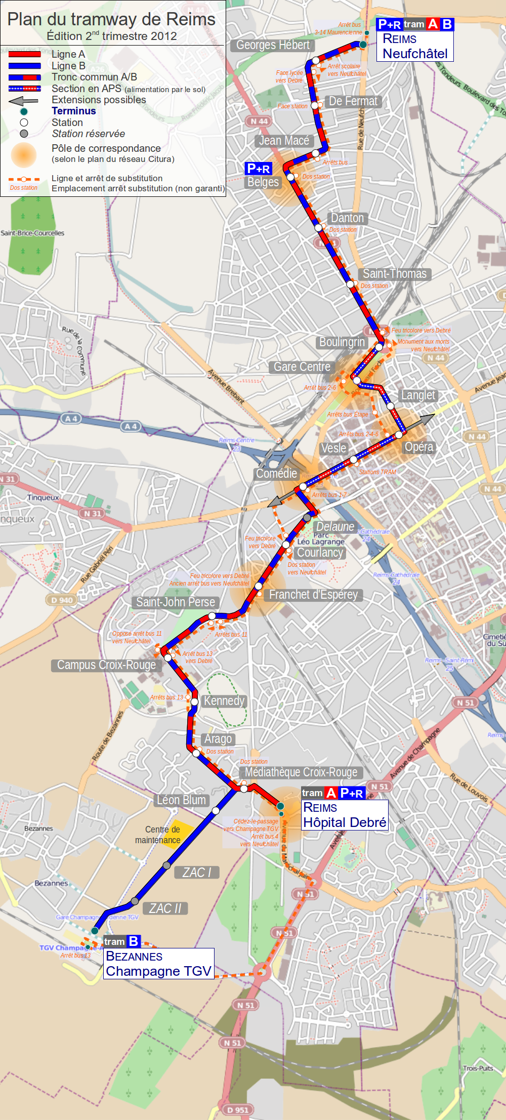 Map of tramway in Rheims France